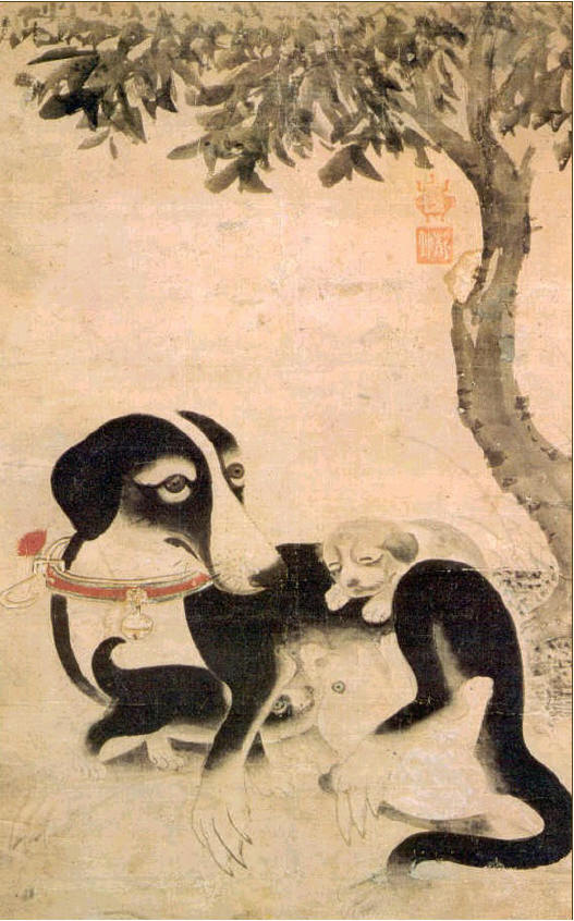 Mogyeondo